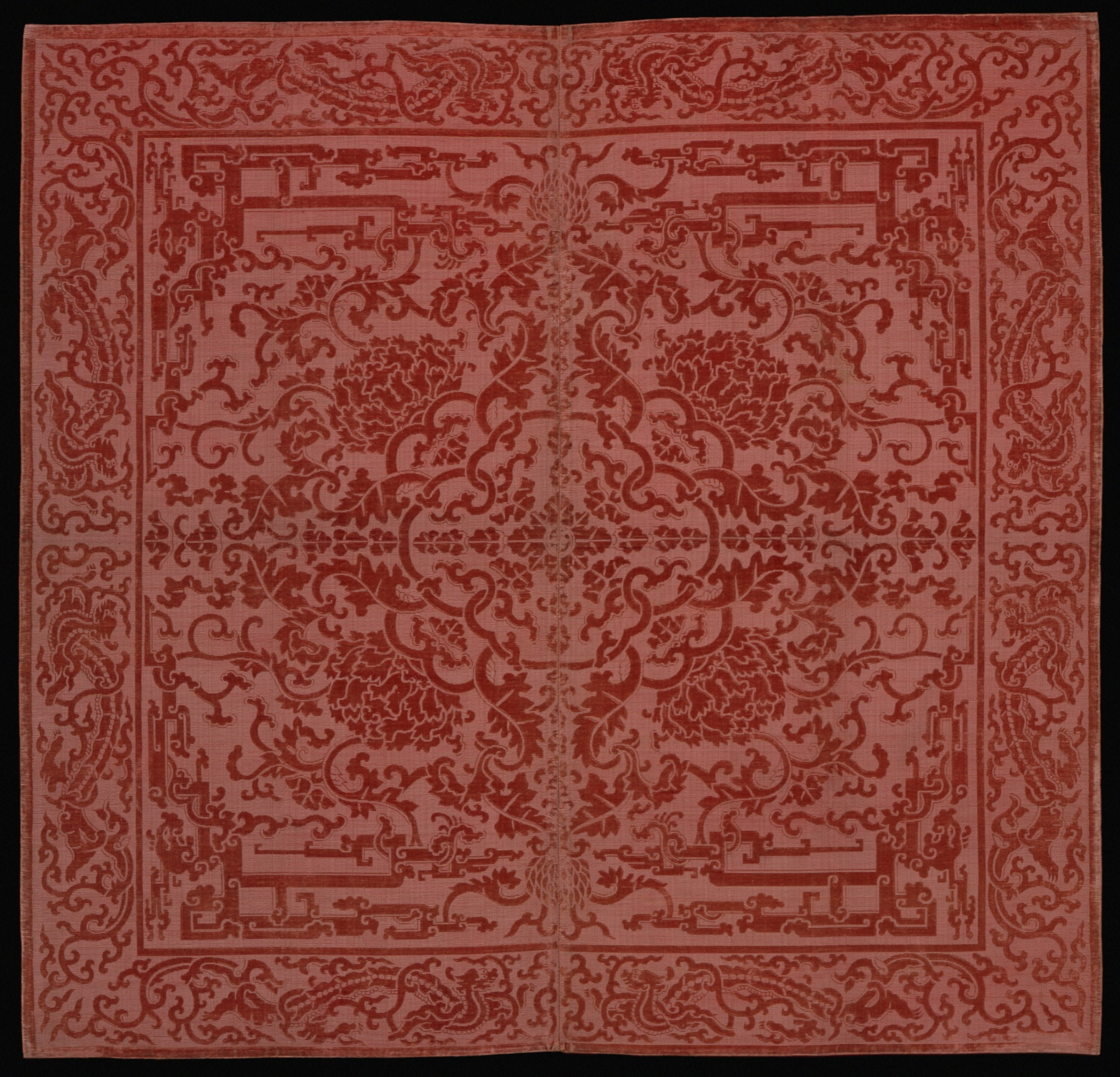 China, Qing dynasty, Qianlong period, 1736-1795 Textiles Cut and voided silk velvet (sirong) 47 in. x 49 in. Mr. and Mrs. Allan C. Balch Collection (M.45.3.182) Costume and Textiles